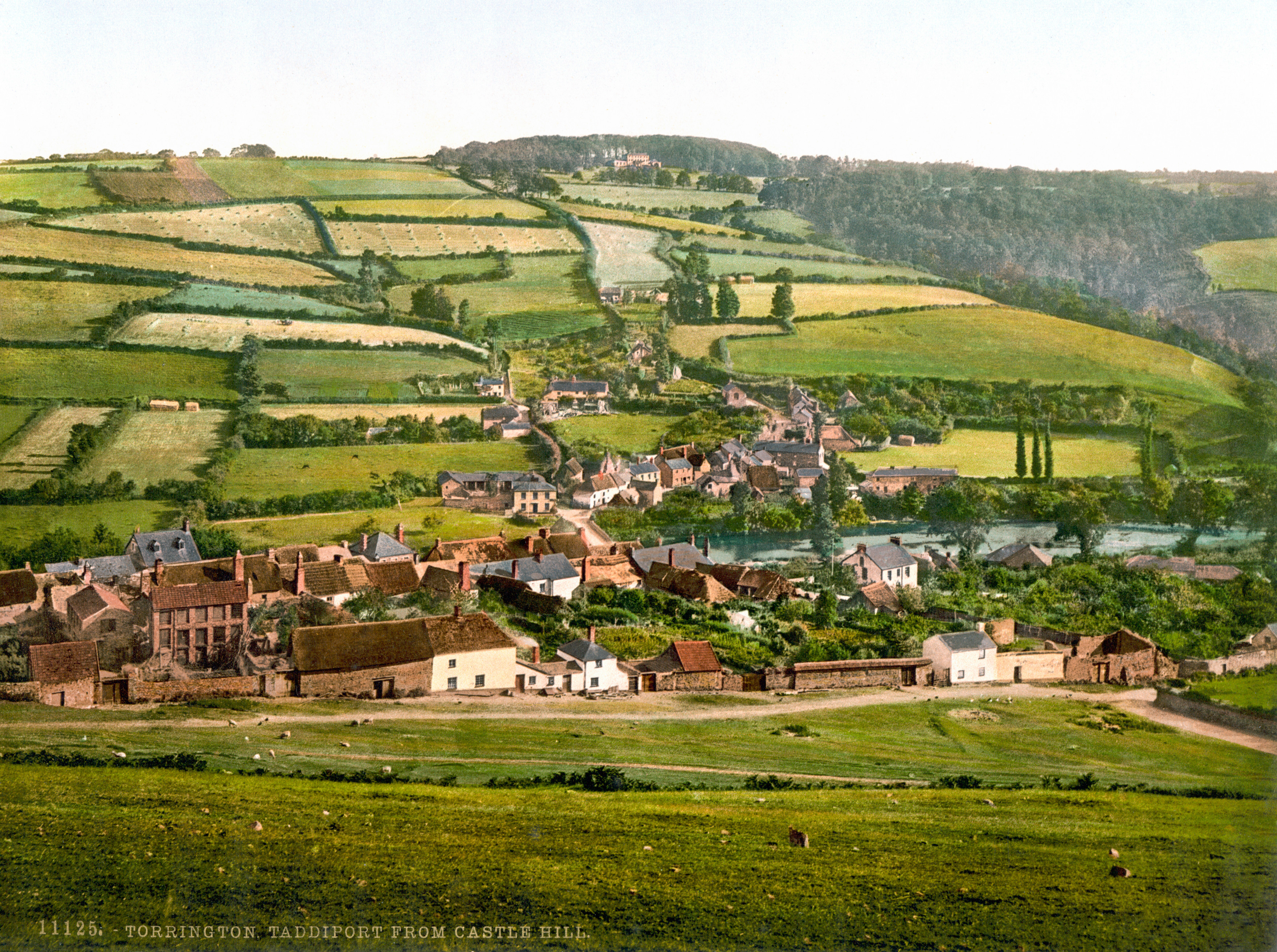 Taddiport viewed from Castle Hill, Torrington, England